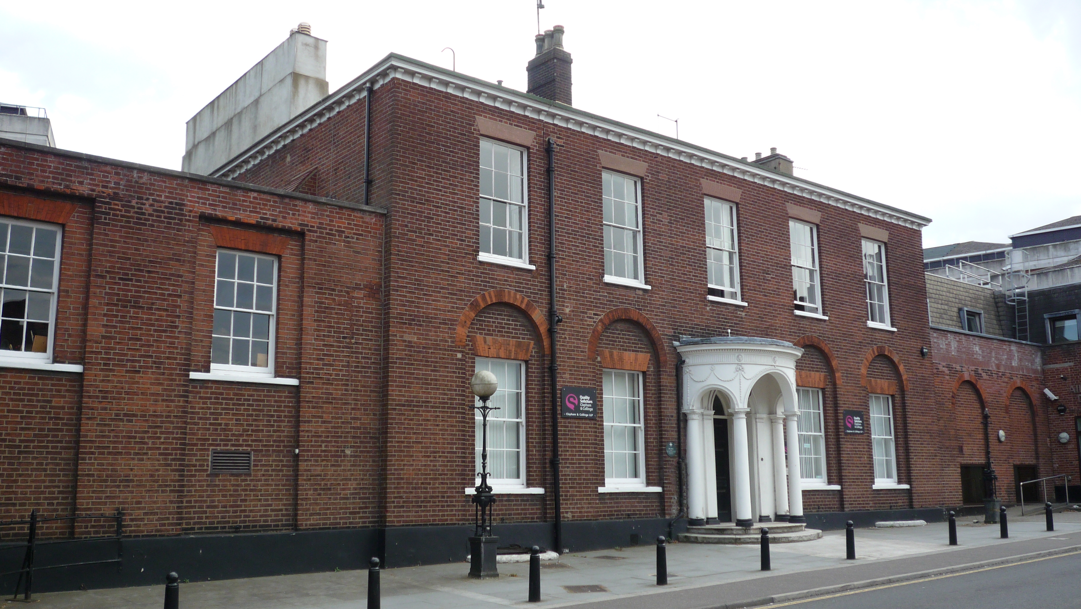 St Catherine's House on All Saints Green in Norwich, pictured in August 2012. Currently the offices of Clapham & Collinge solicitors, the building was the regional headquarters of BBC East in the city from 1956 until 2003.